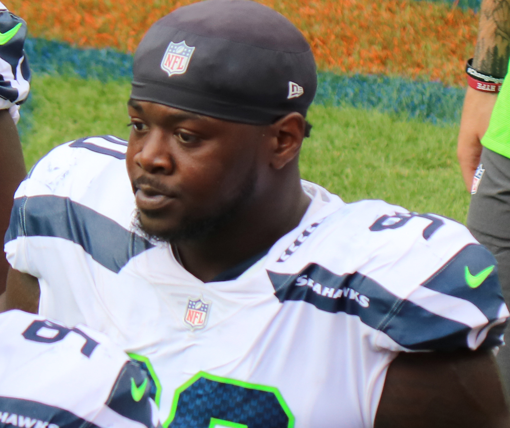 {W|Jarran Reed , a National Football League player.